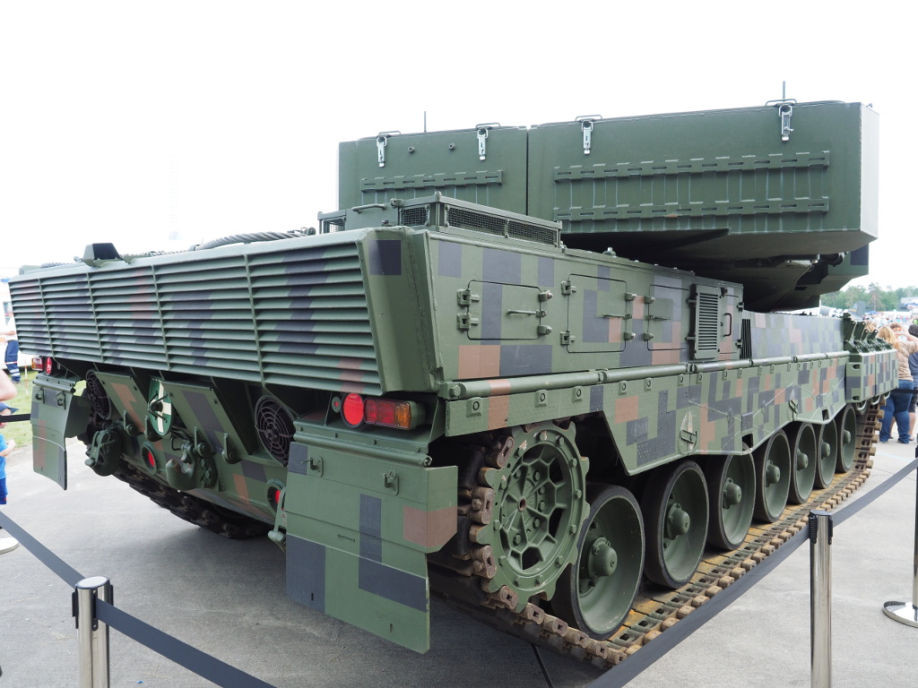 Leopard 2 A4 upgraded to PL standard, view at auxiliary power unit